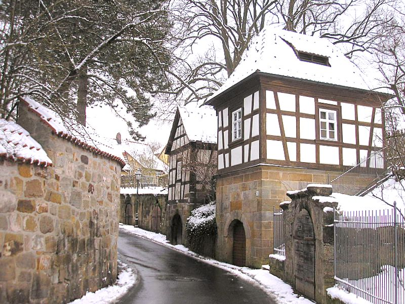 Ebern (Landkreis Haßberge, Lower Franconia, Germany). Historic cellar houses at the Hirtengasse